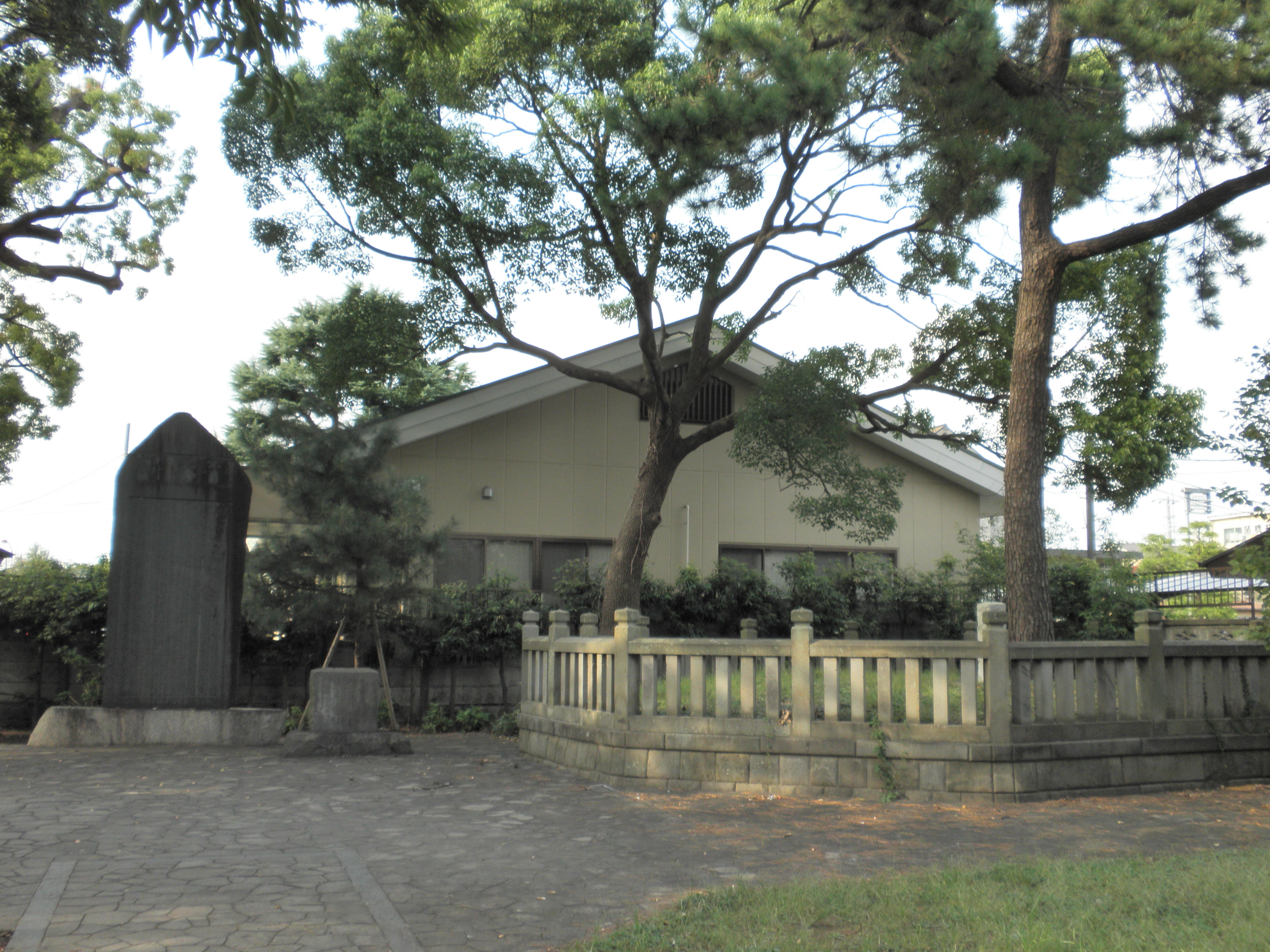 A famous mound in Hiratsuka, JAPAN